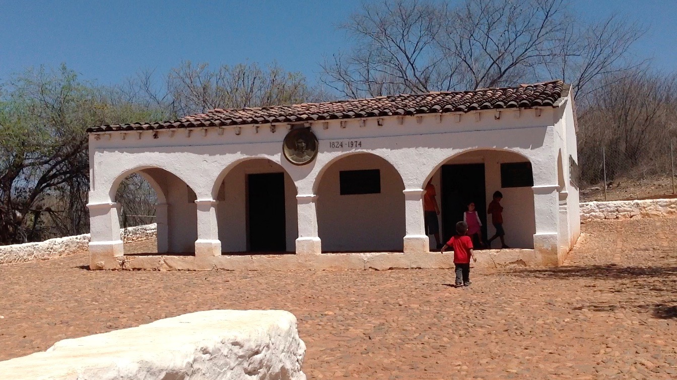 Birthplace of First President of Mexico, Guadalupe Victoria in Tamazula Dgo MX. 2013.